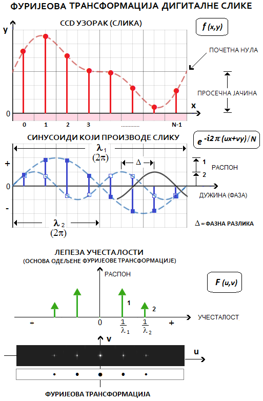 ФУРИЈЕОВА ТРАНСФОРМАЦИЈА ДИГИТАЛНЕ СЛИКЕ